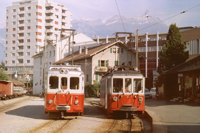 AOMC Monthey Ville 9/79